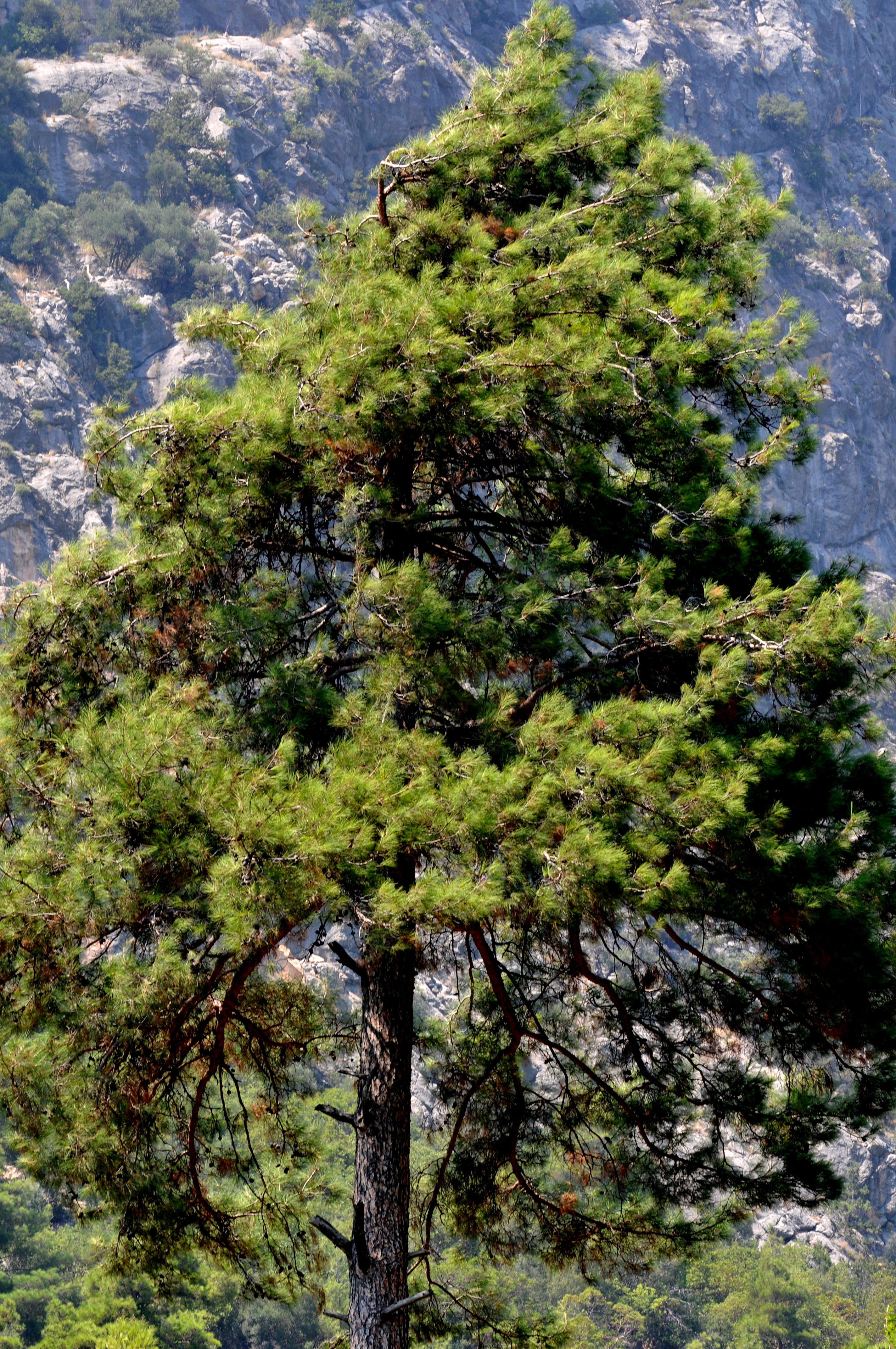 Turkish pine (Pinus brutia).Üzümlü, Mezitli, Mersin - Turkey.